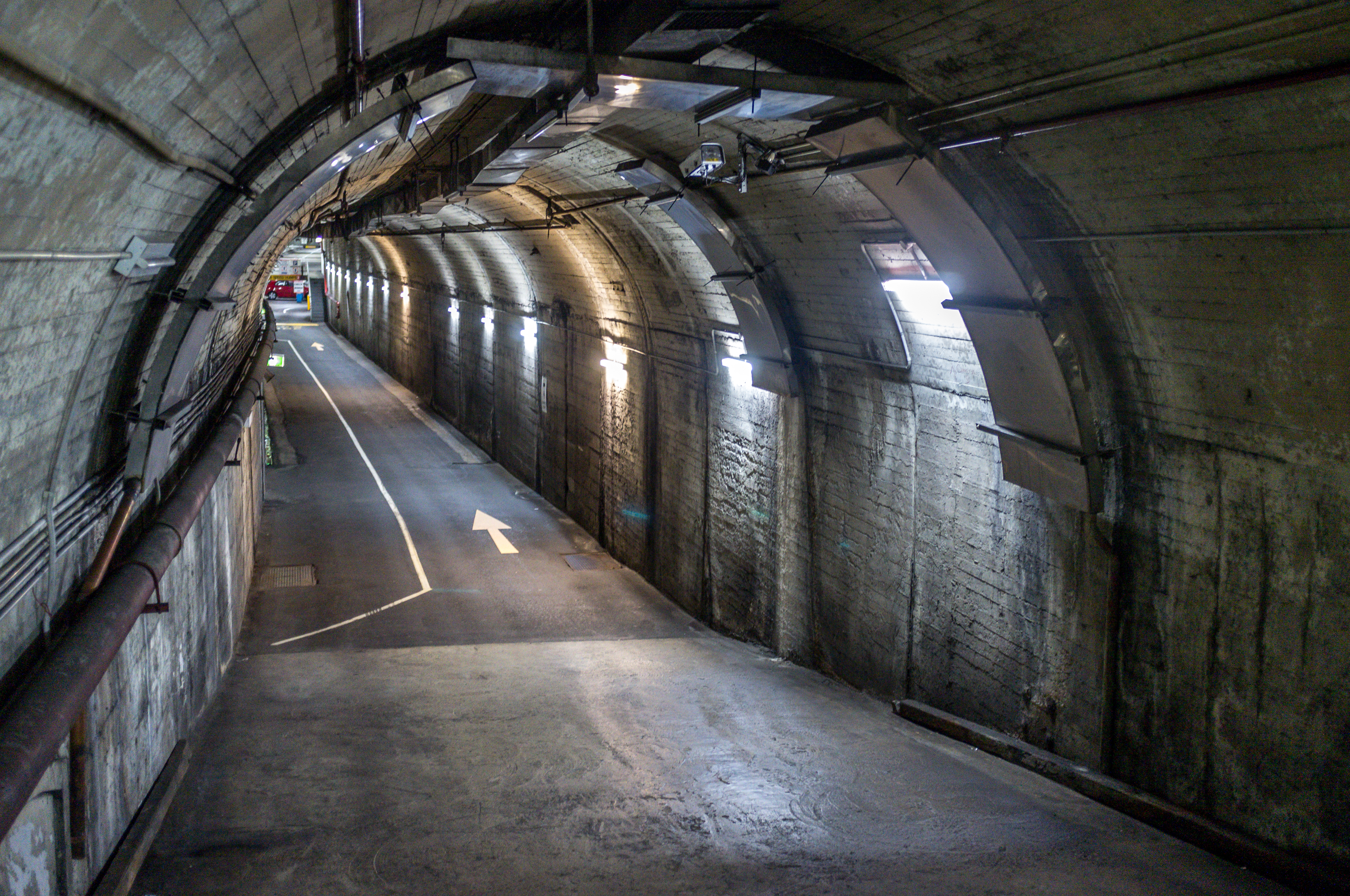 Wynyard Former Tram Tunnels looking North